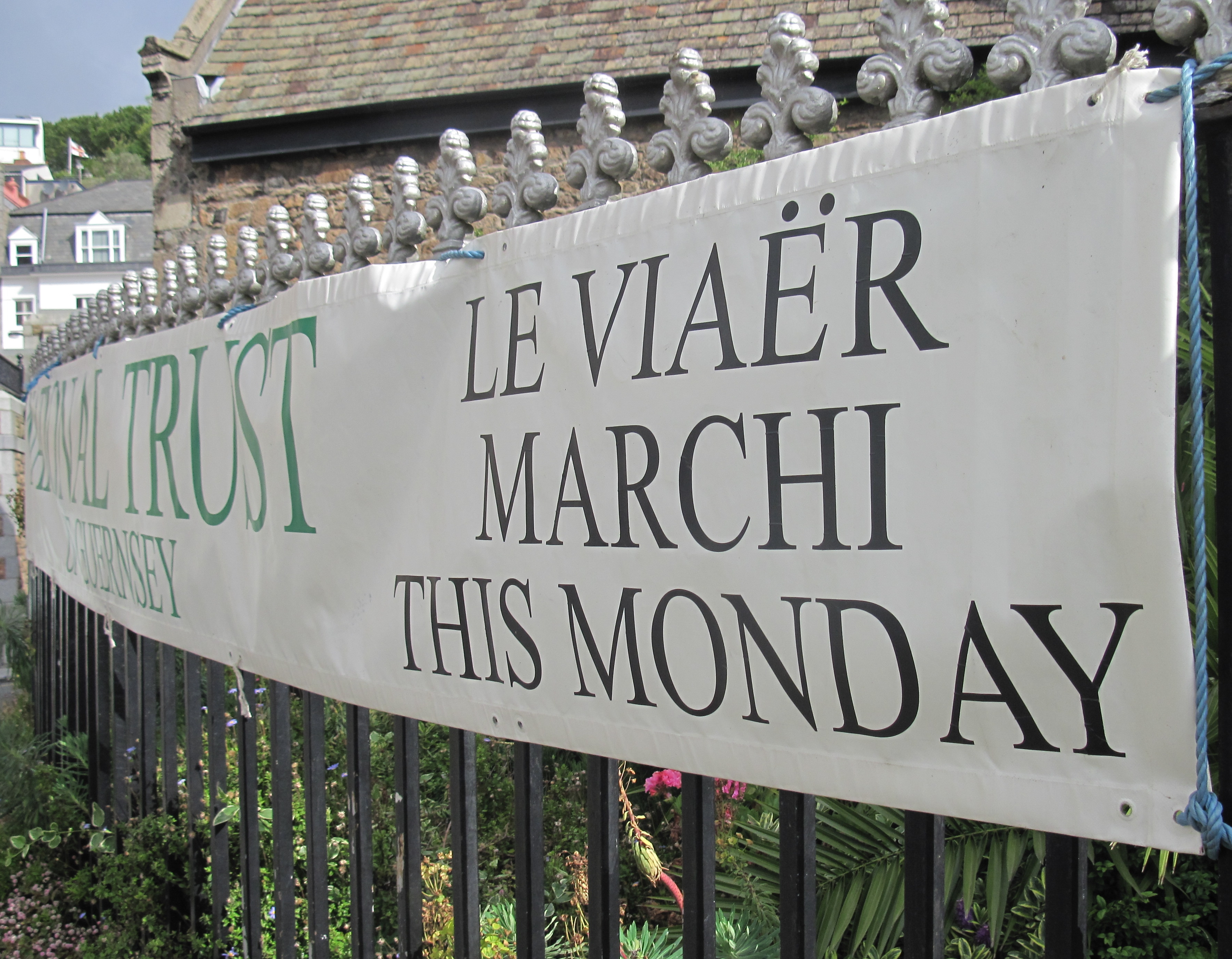 Saint Peter Port, Guernsey Nrf: Saint Pierre Port (Guernési)